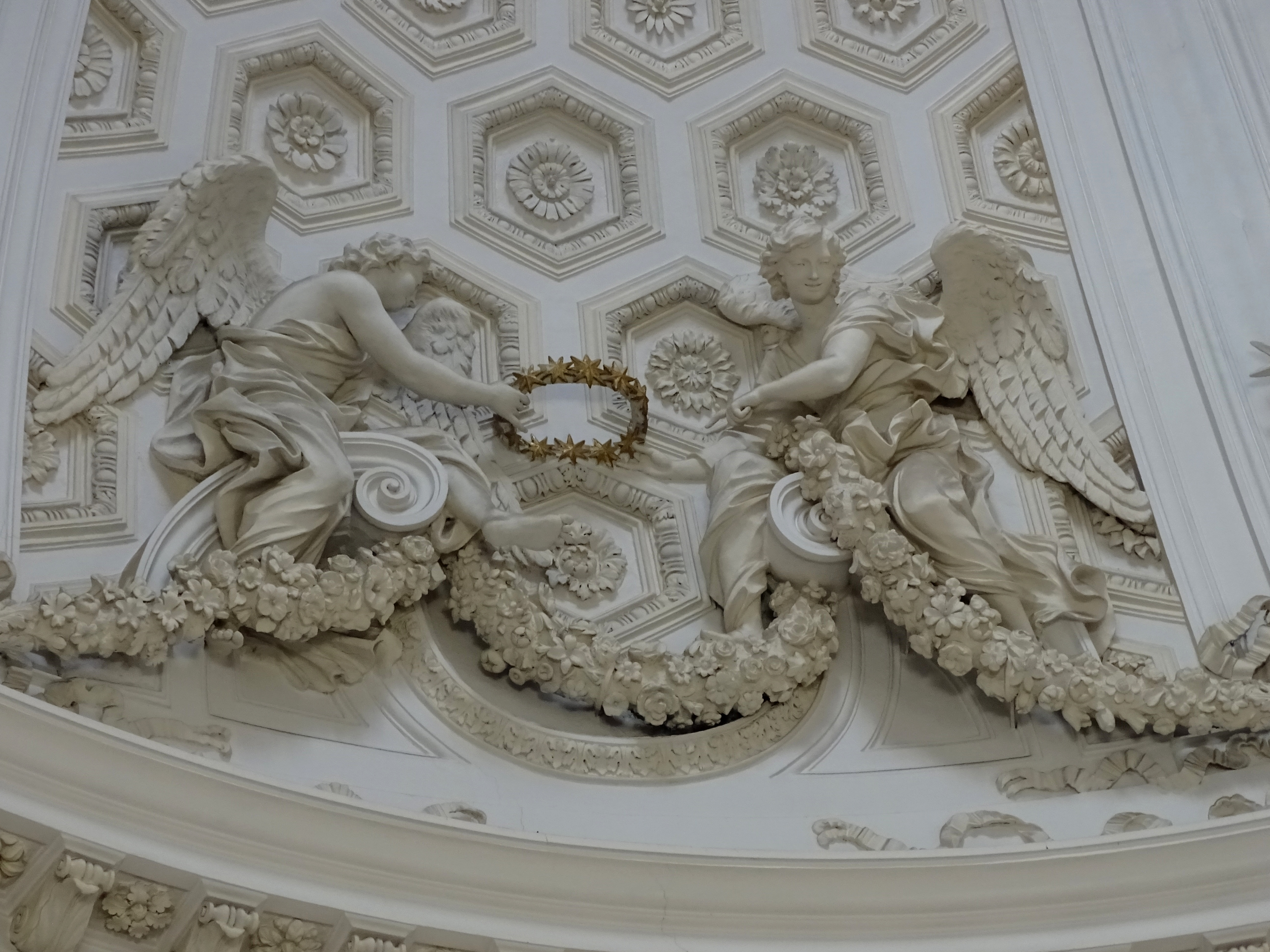 Church of Santa Maria Assunta and Cielo, Ariccia